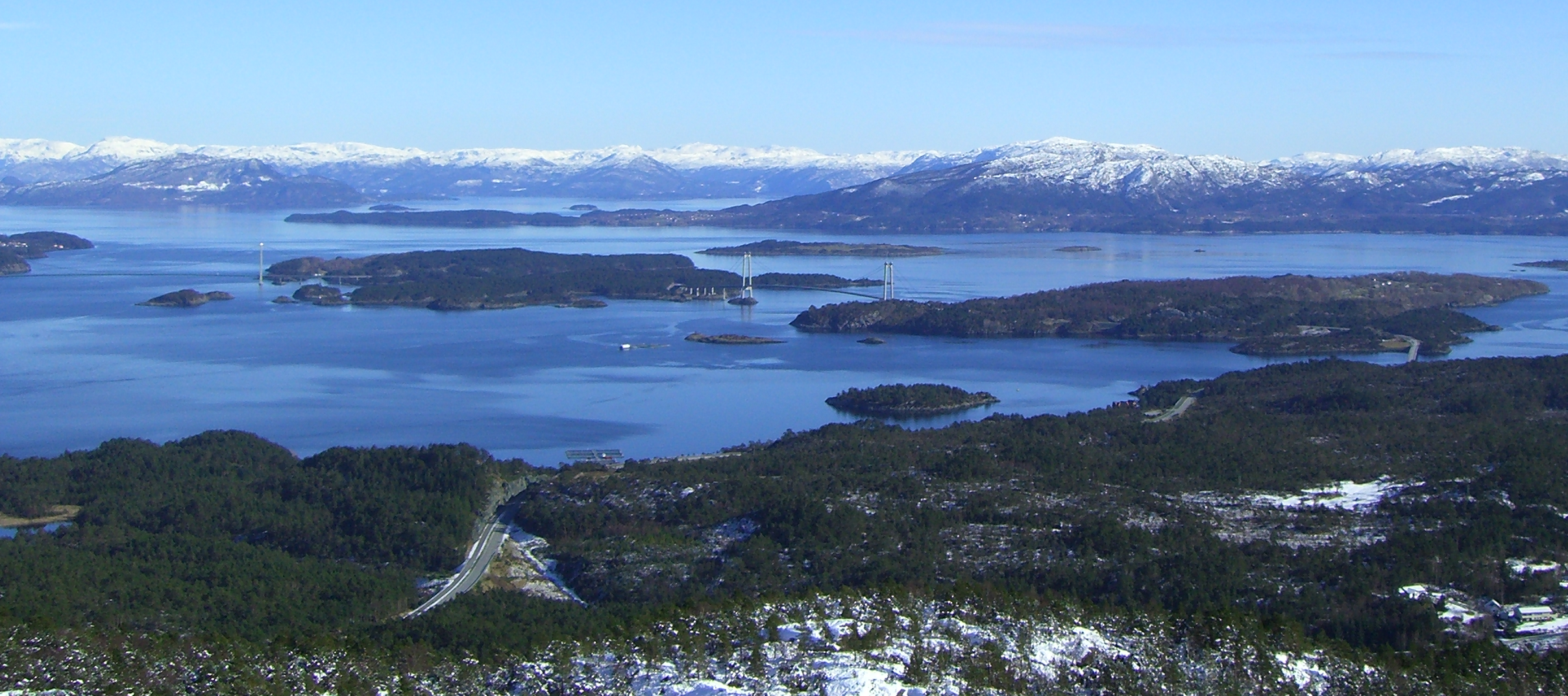 View of Bømlafjorden from Bømlo. To the left of the center is the island of Nautøy with Føyno behind it, and Spissøy to the right. The bridge to the left is Stord Bridge and in the middle Bømlo Bridge, both part of the Triangle Link